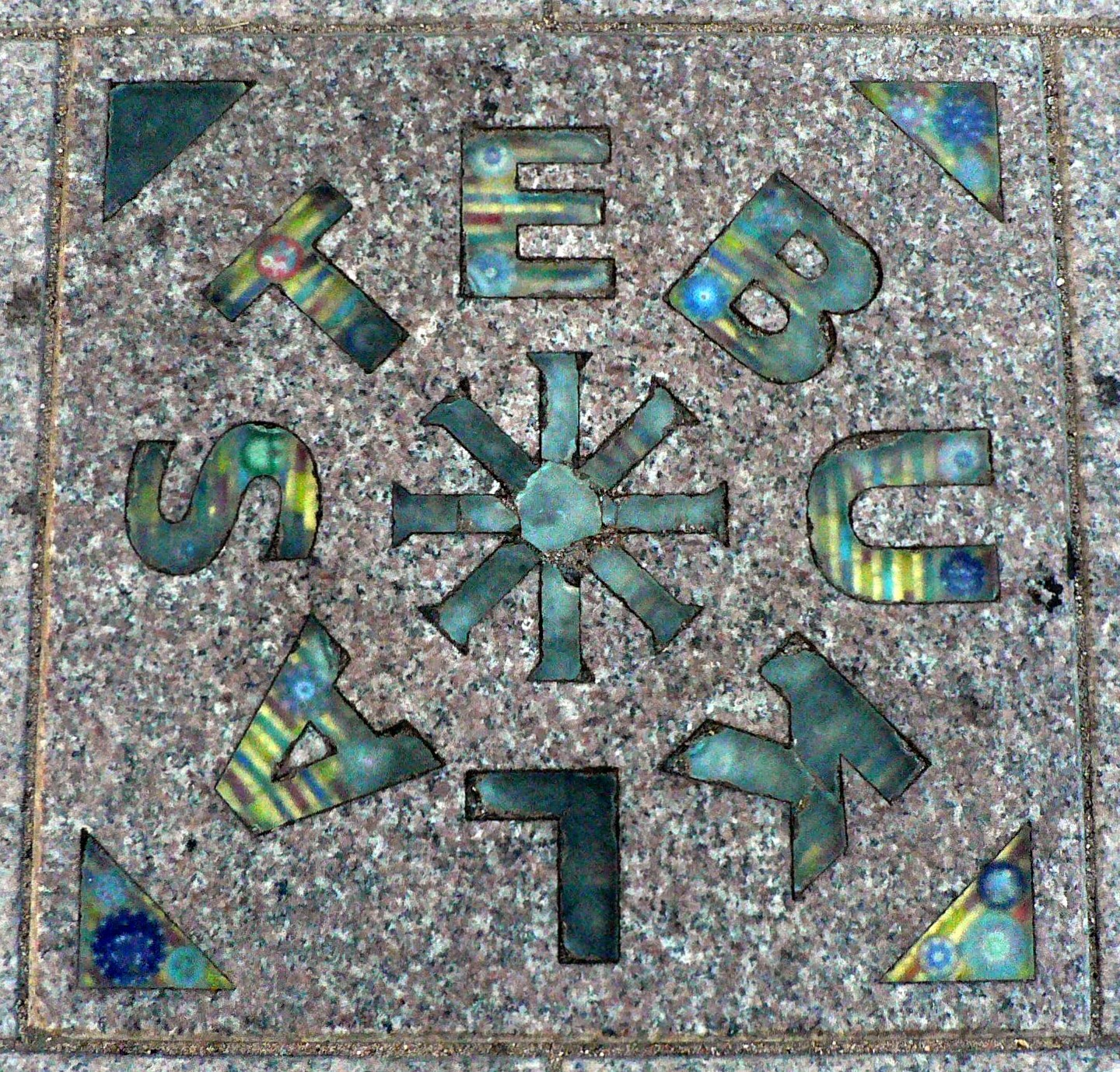 Magic stone. Cathedral Square, Vilnius, Lithuania. Created by Gytenis Umbrasas (1999). Reconstruction in 2003